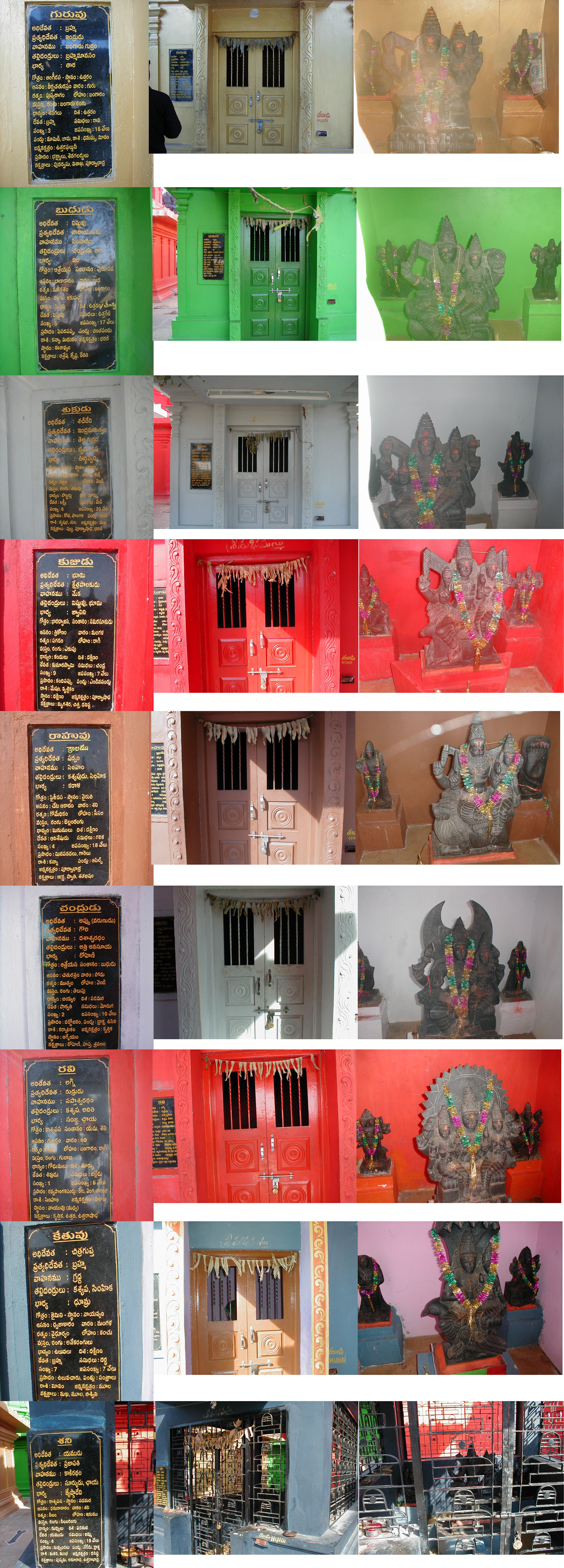 Surendrapuri Temple's Navagraha Temples